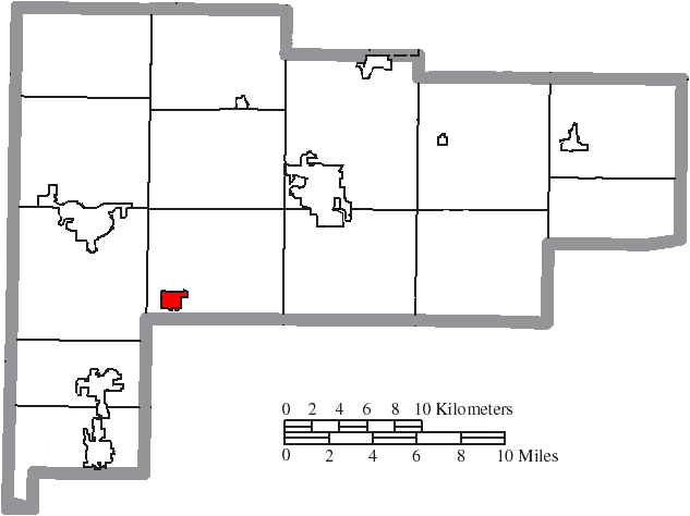 Map of the municipal and township boundaries of Auglaize County, Ohio, United States, as of the 2000 census, with the location of the village of New Knoxville highlighted. Township borders are shown only in unincorporated areas in order to differentiate incorporated and unincorporated areas more clearly.